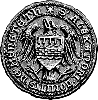 Seal of Alexander Stewart, Earl of Menteith (died 1297×1306).